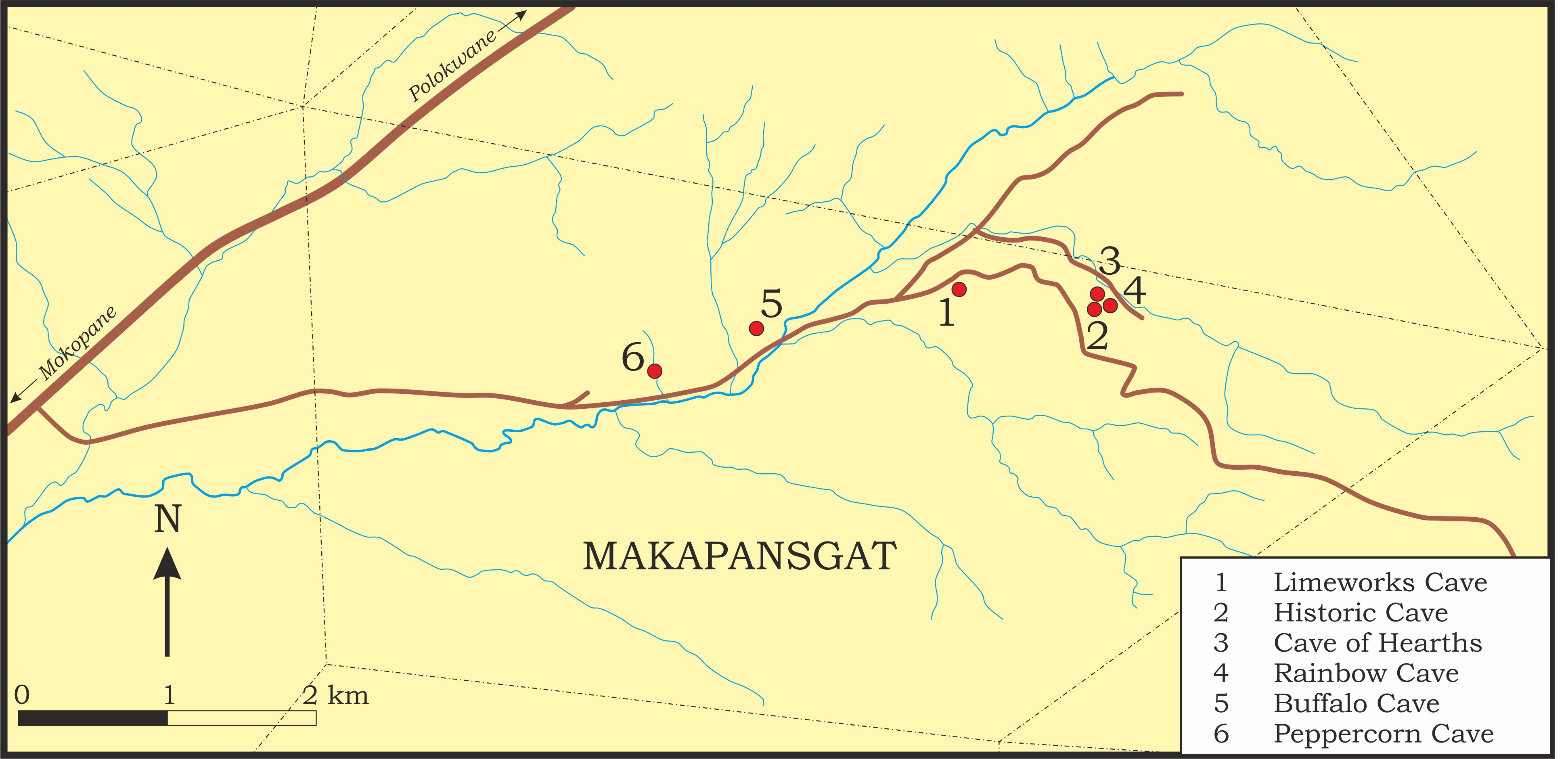 A plan of Makapansgat farm (Limpopo, South Africa) showing some important caves